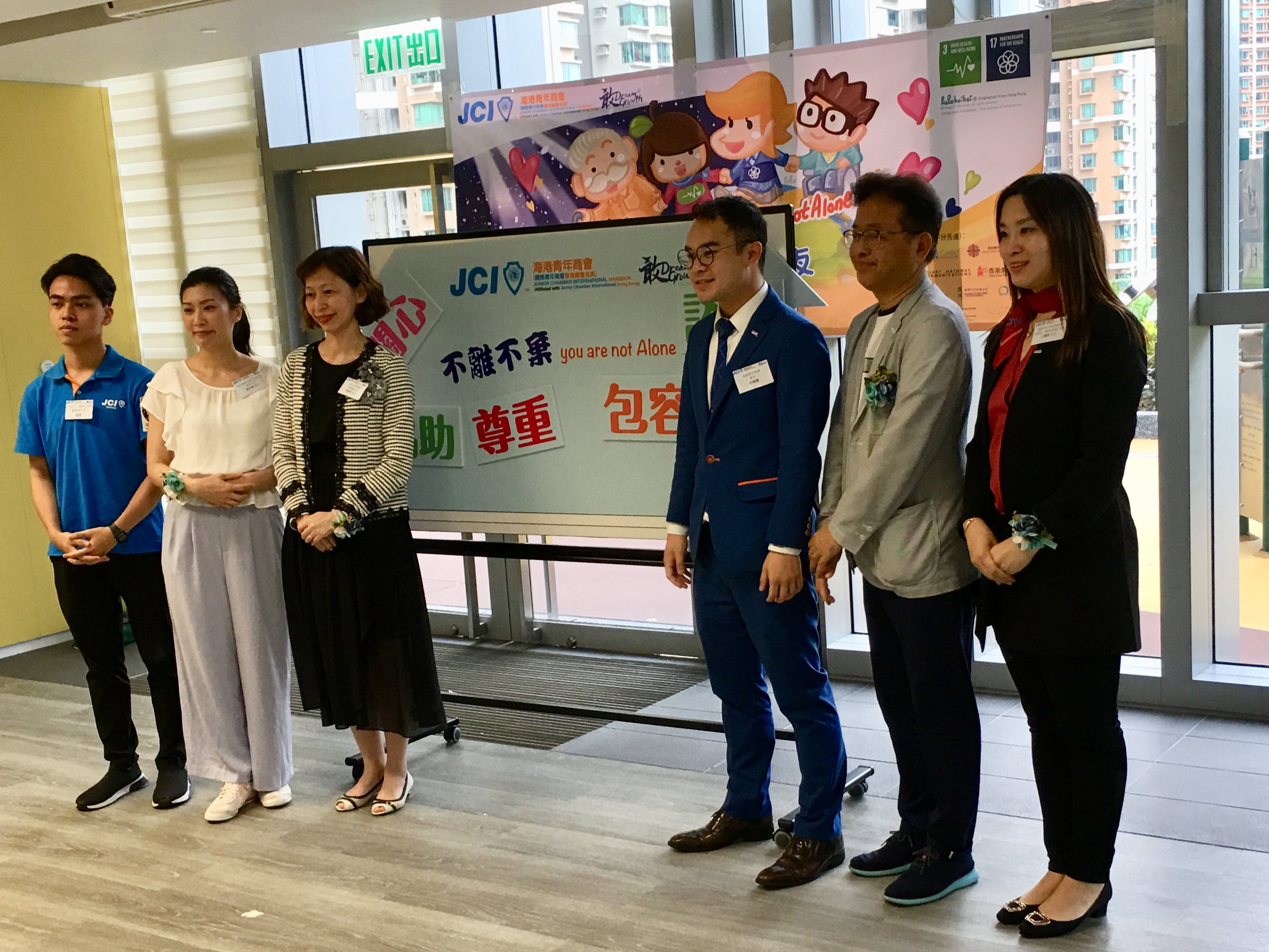 Event of a Hong Kong NGO